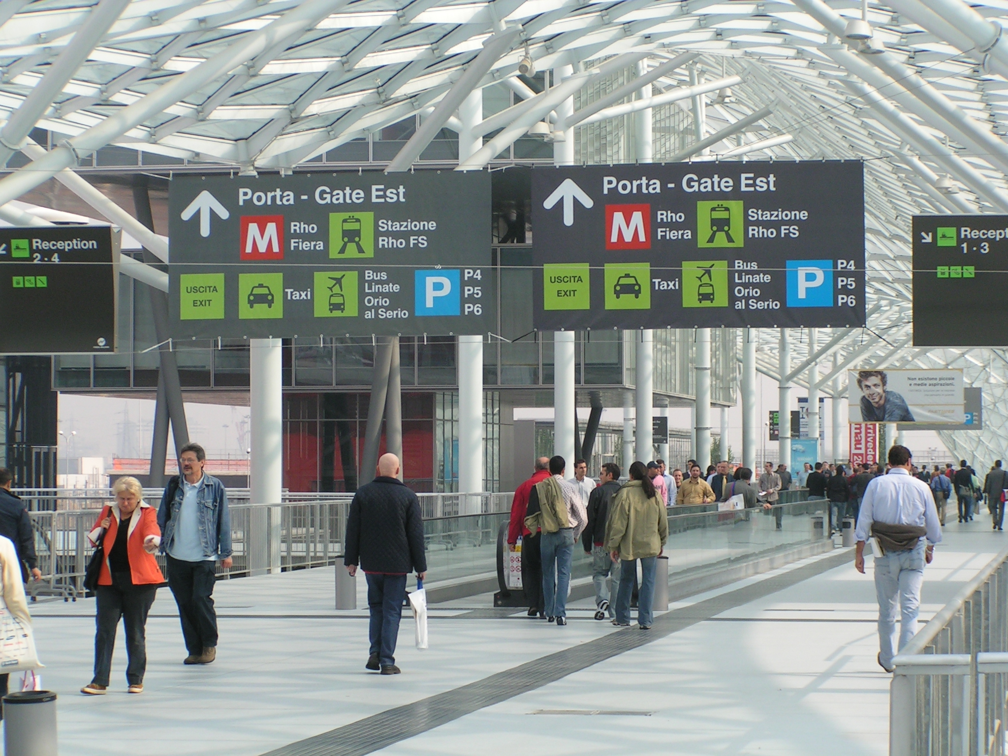 Directions to tranport connections and the East Gate of FieraMilano, Rho, Lombardy, Italy (near Milan)